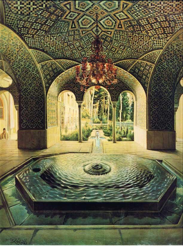 "Golestan palace springhouse" painting by Kamal-ol-molk kept in Golestan palace museum